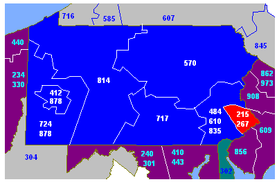 Map of Pennsylvania area codes in blue with A/C 215 in red.